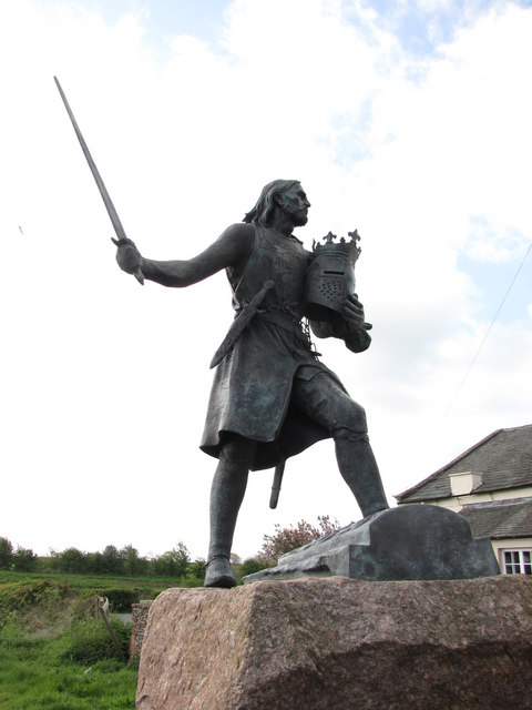 Hammer of the Scots Edward I died near here on 7th July 1307 whilst leading a campaign against Robert The Bruce. The statue was created by Christopher Kelly and unveiled 700 years after Edward's death.